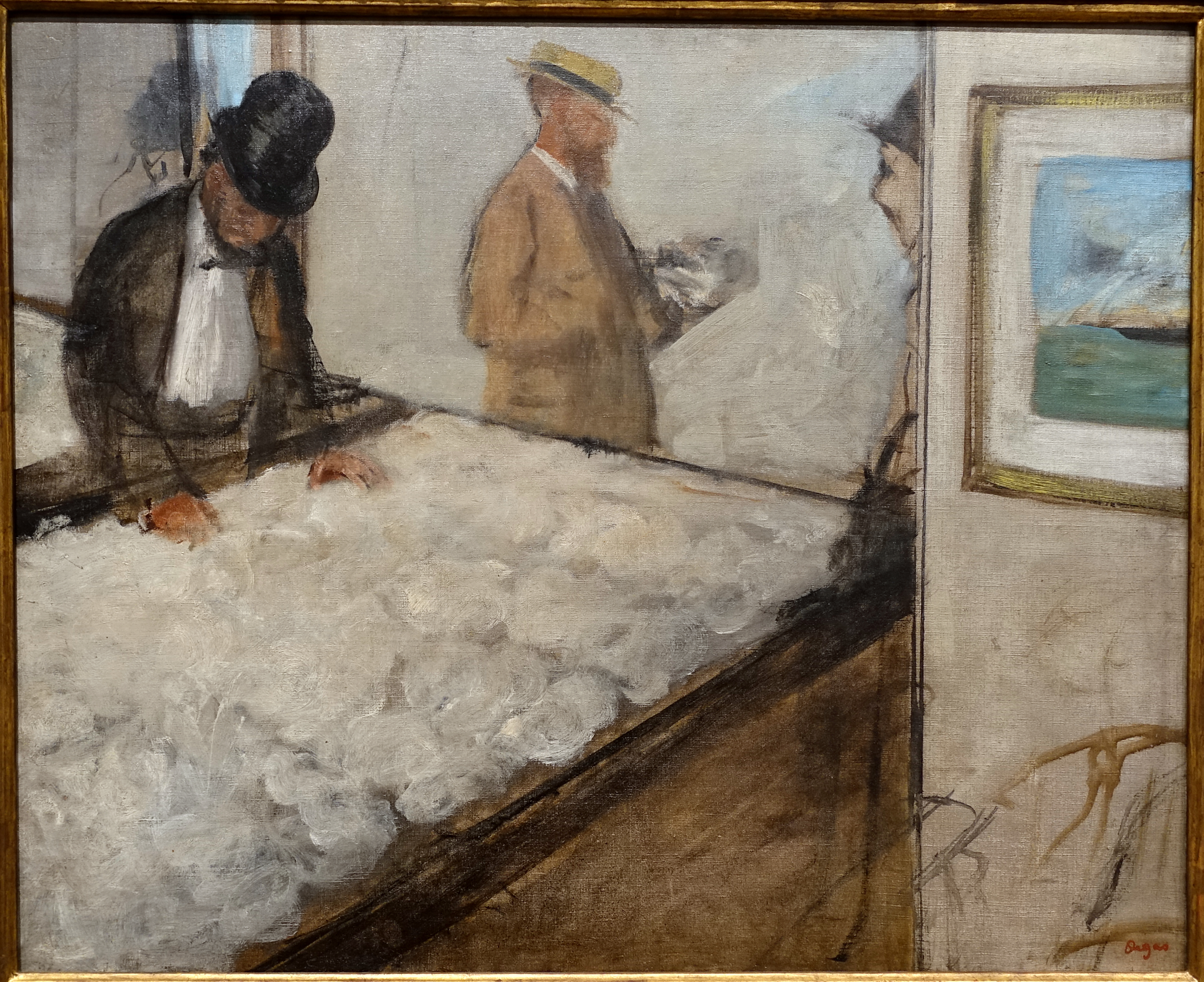 Exhibit in the Fogg Museum - Harvard University - Cambridge, Massachusetts, USA.